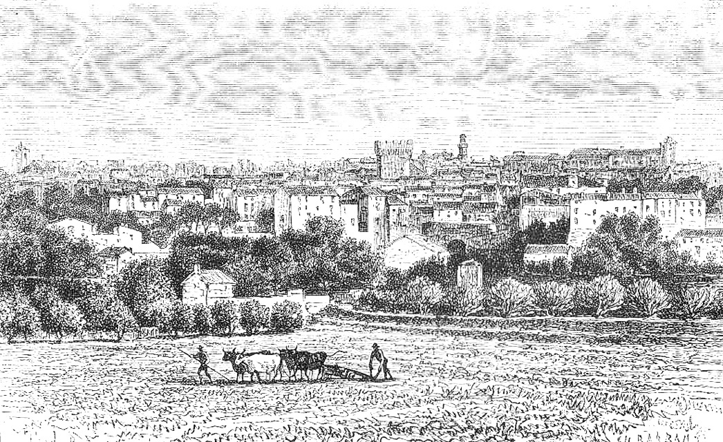 City of Carpentras 1880